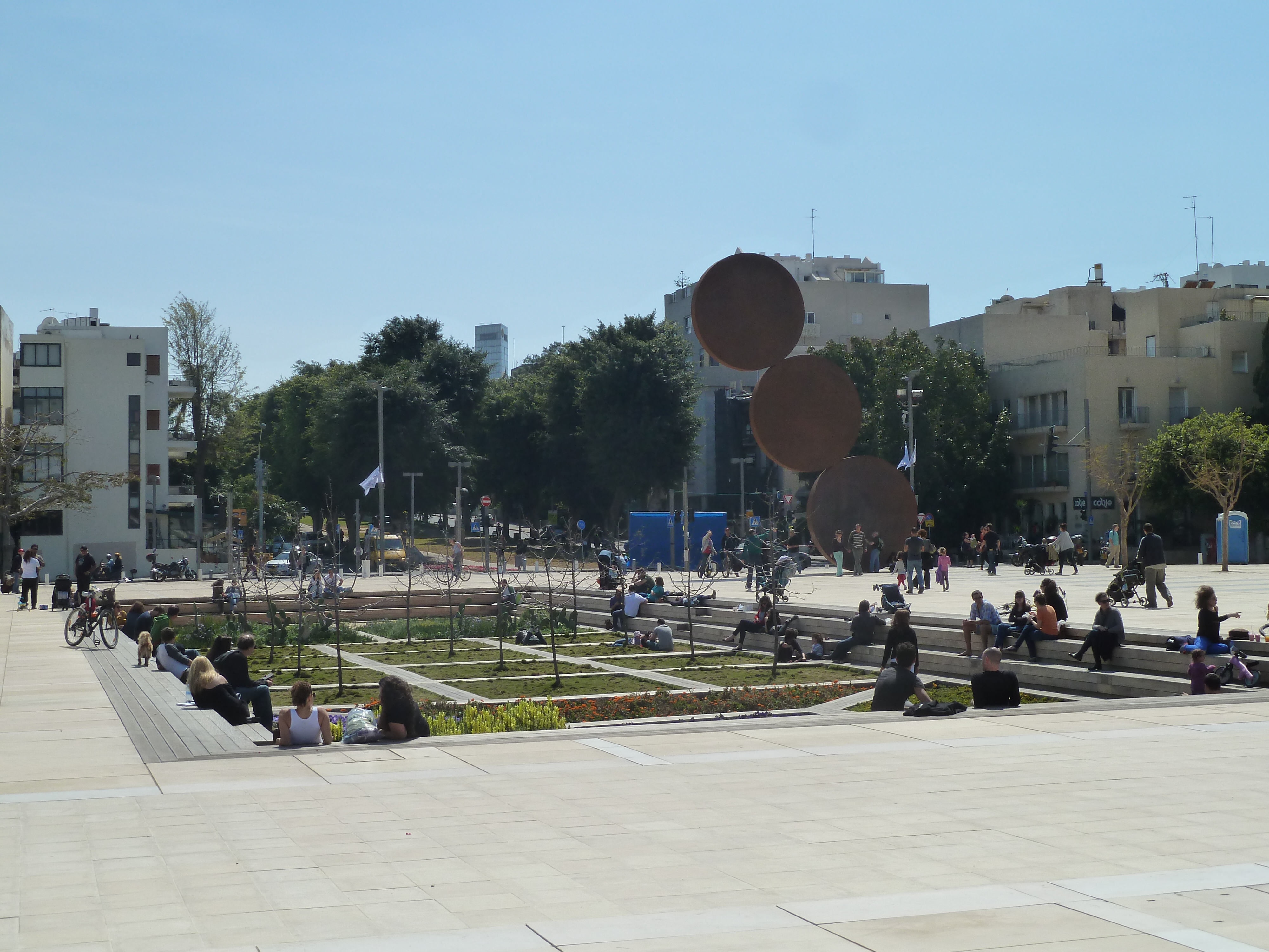 Habima Square, Tel Aviv-Yaffo